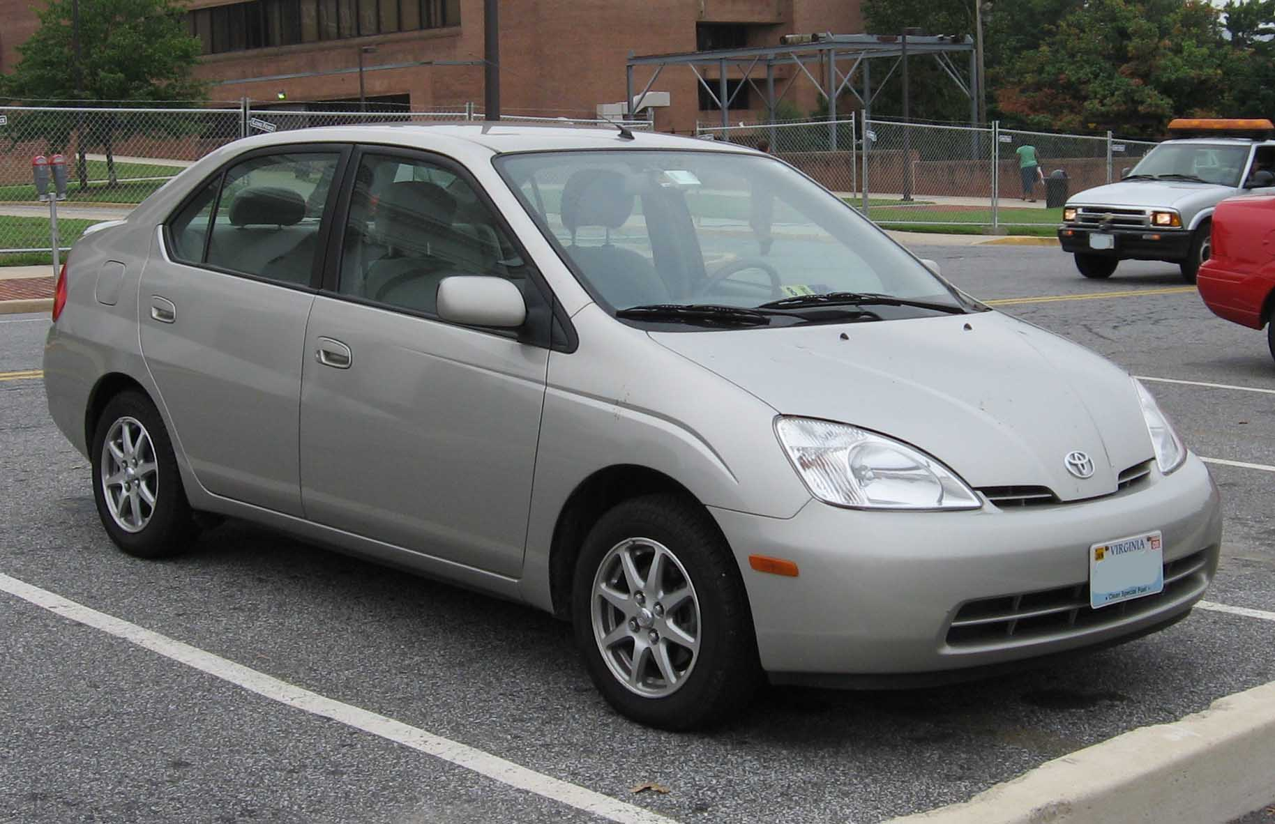 2000-2003 Toyota Prius photographed in USA.